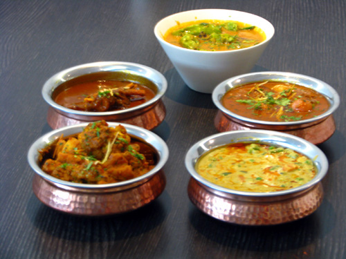 Indian Cuisine